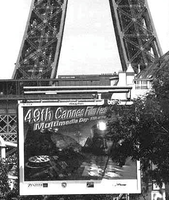 Photo of a billboard in Paris showcasing the award winning image of the artist Beny Tchaicovsky, the best poster for the 49th Cannes Film Festival First Multimedia Day International contest in 1996.